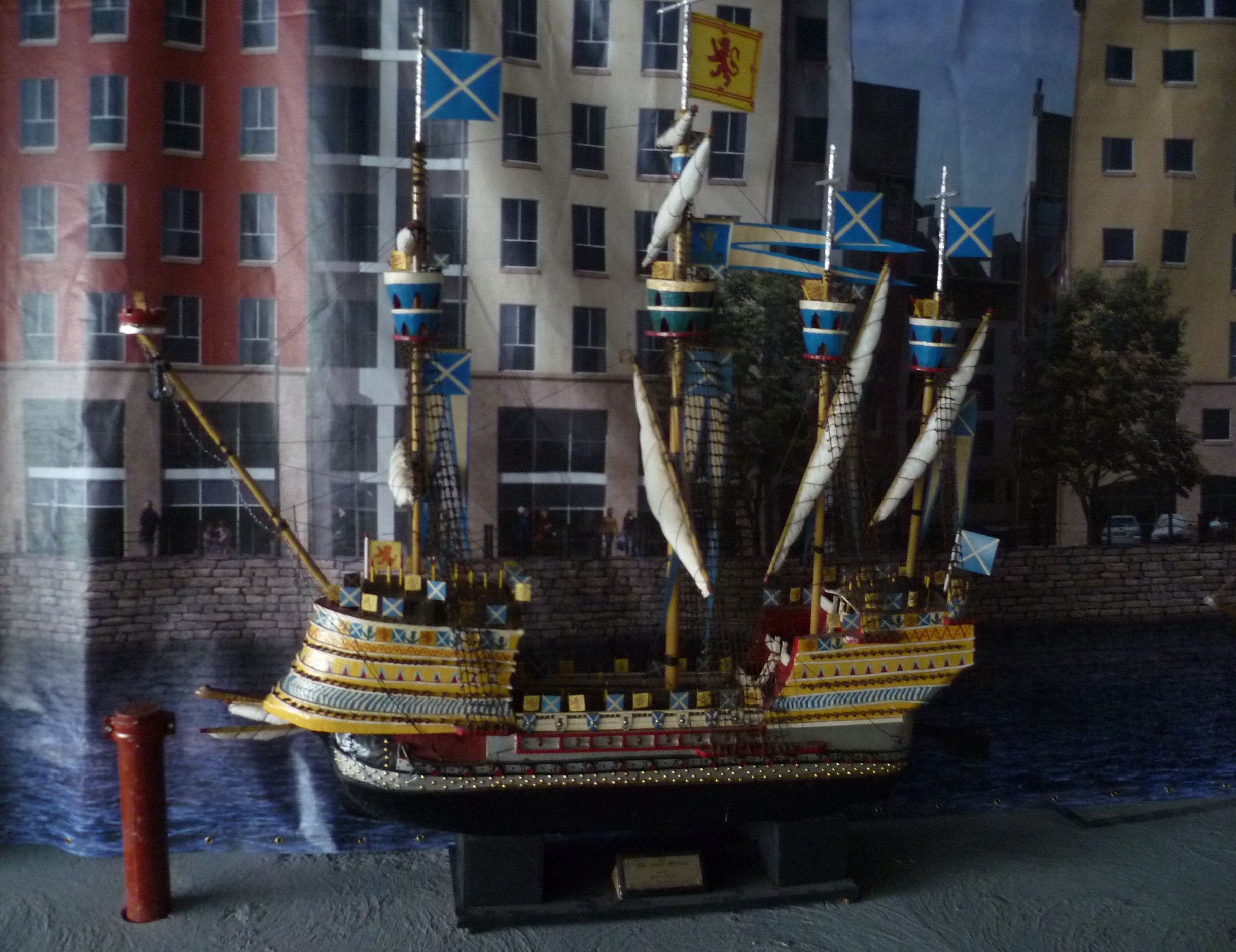 A model of James IV's flagship, the 'Great Michael', made between 1984 and 1986 by George Scammell from Granton, near Newhaven where she was built.